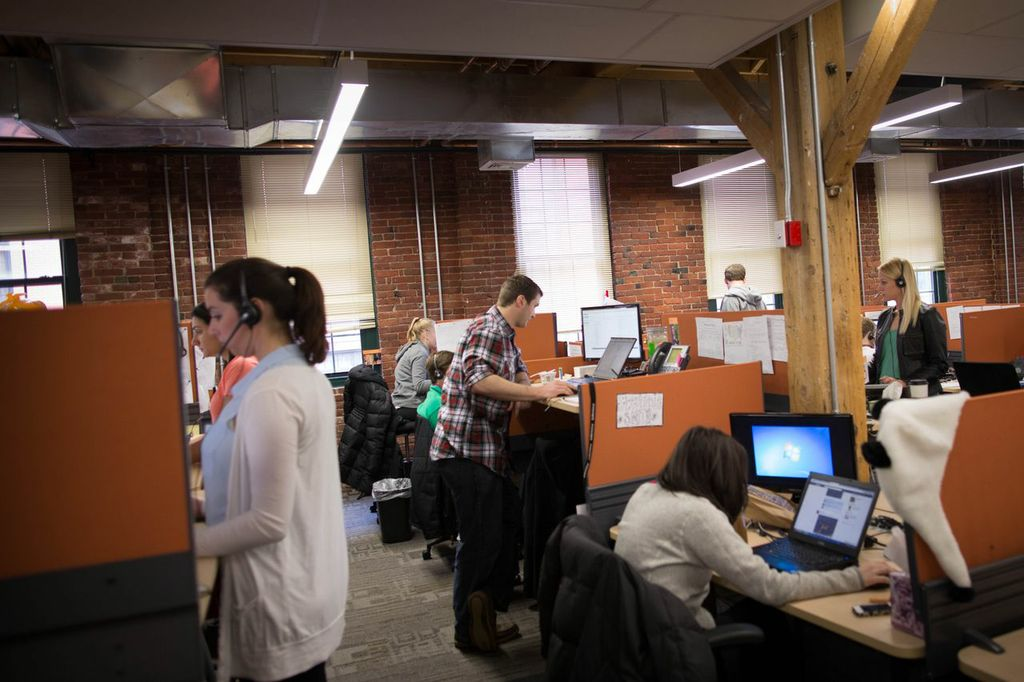 Part of the HubSpot office culture is to have no walls or doors separating team members.